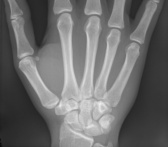 X-ray of carpus and metacarpus of a 19y old woman.